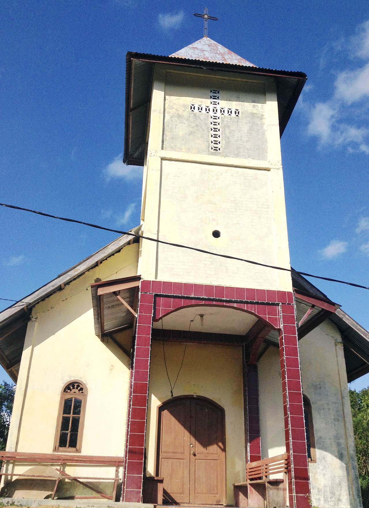 HKBP Galanggang, Church in Galanggang, Damparan Haunatas, Saipar Dolok Hole, Tapanuli Selatan.